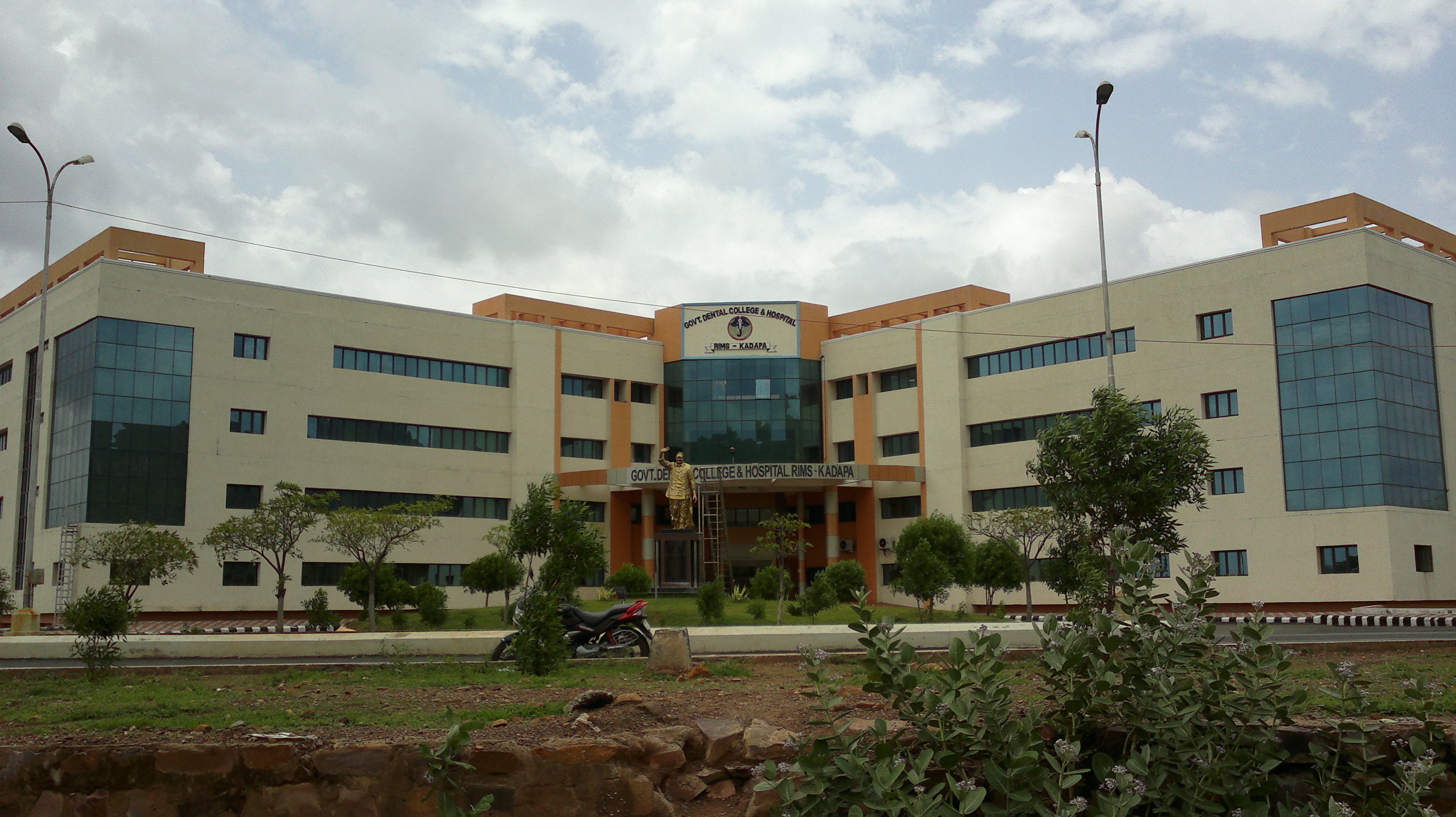 dental college and hospital